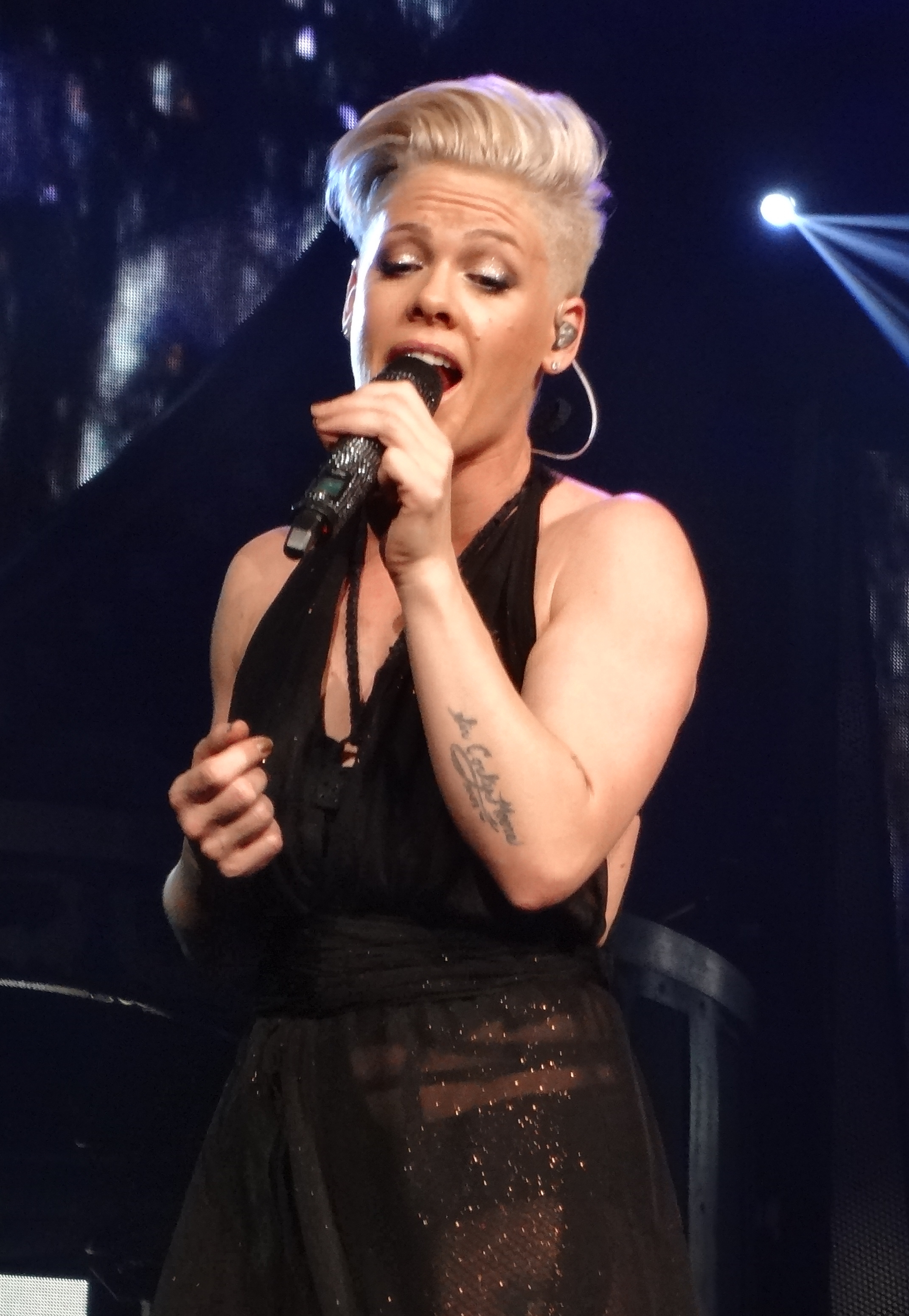 P!nk performing live, March 6th 2013